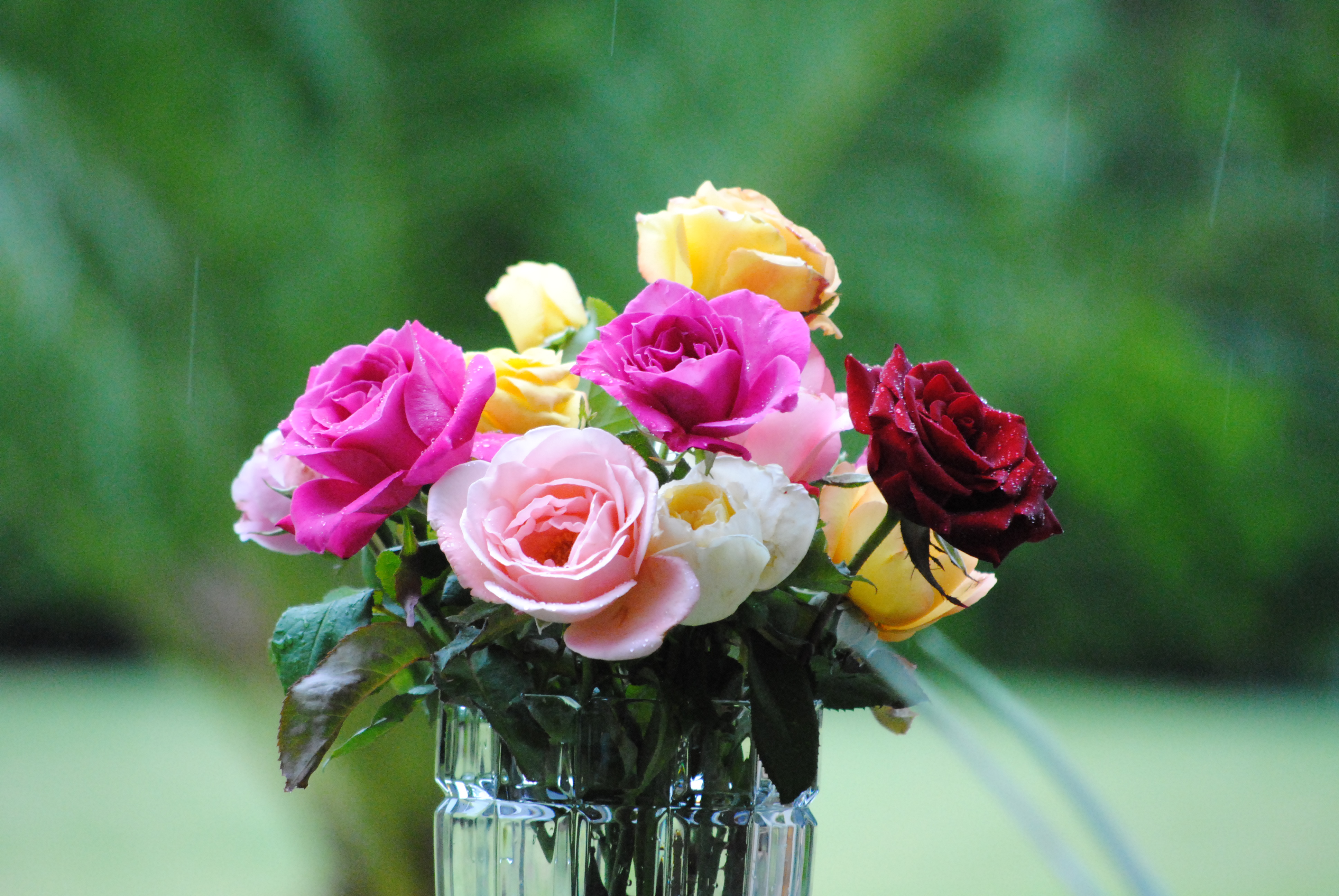 A bouquet of flowers.